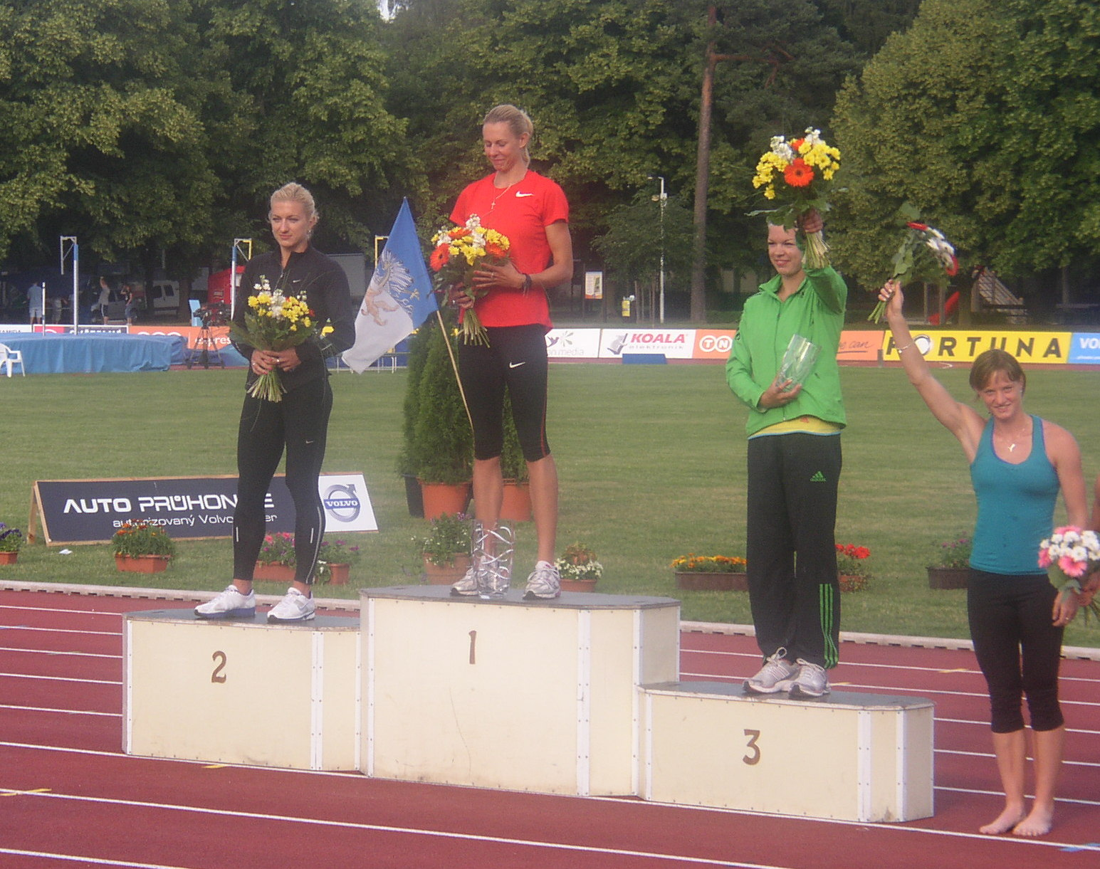 Top scoring athletes in women's heptathlon during victory ceremony at 5th edition of the TNT - Fortuna Meeting (IAAF World Combined Events Challenge Meeting, Sletiště Stadium, Kladno, Czech Republic, 16 June 2011, 18:50). left to right: Karolina Tymińska (POL) 6182 points (PB), 2nd place Tatyana Chernova (RUS) 6268 points (PB), 1st place Aiga Grabuste (LAT) 6252 points, 3rd place Kateřina Cachová (CZE) 5897 points, 4th place